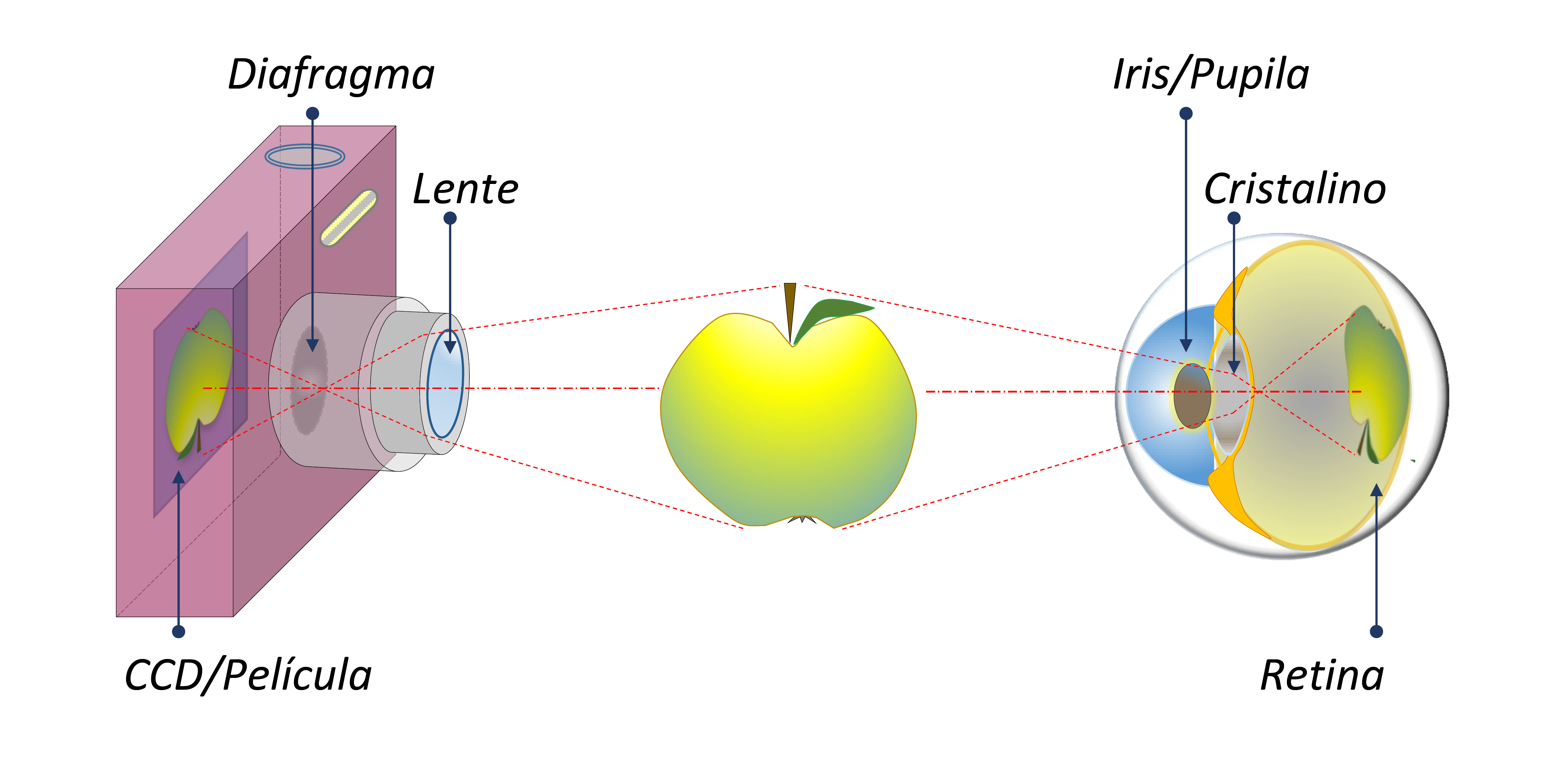 Camera versus eye